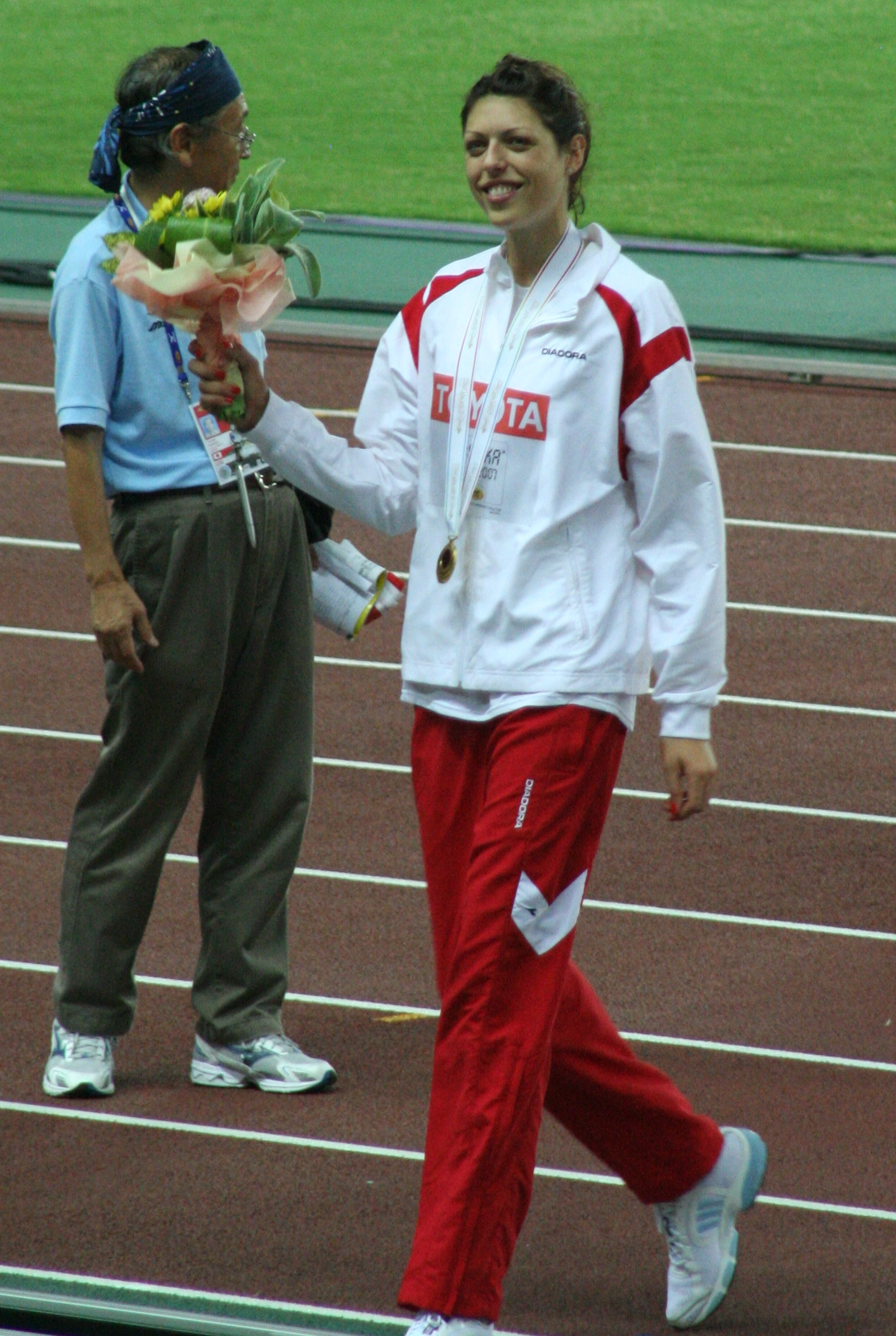 World Athletics Championships 2007 in Osaka - Blanka Vlasic, winner of the women's high jump, after the victory ceremony